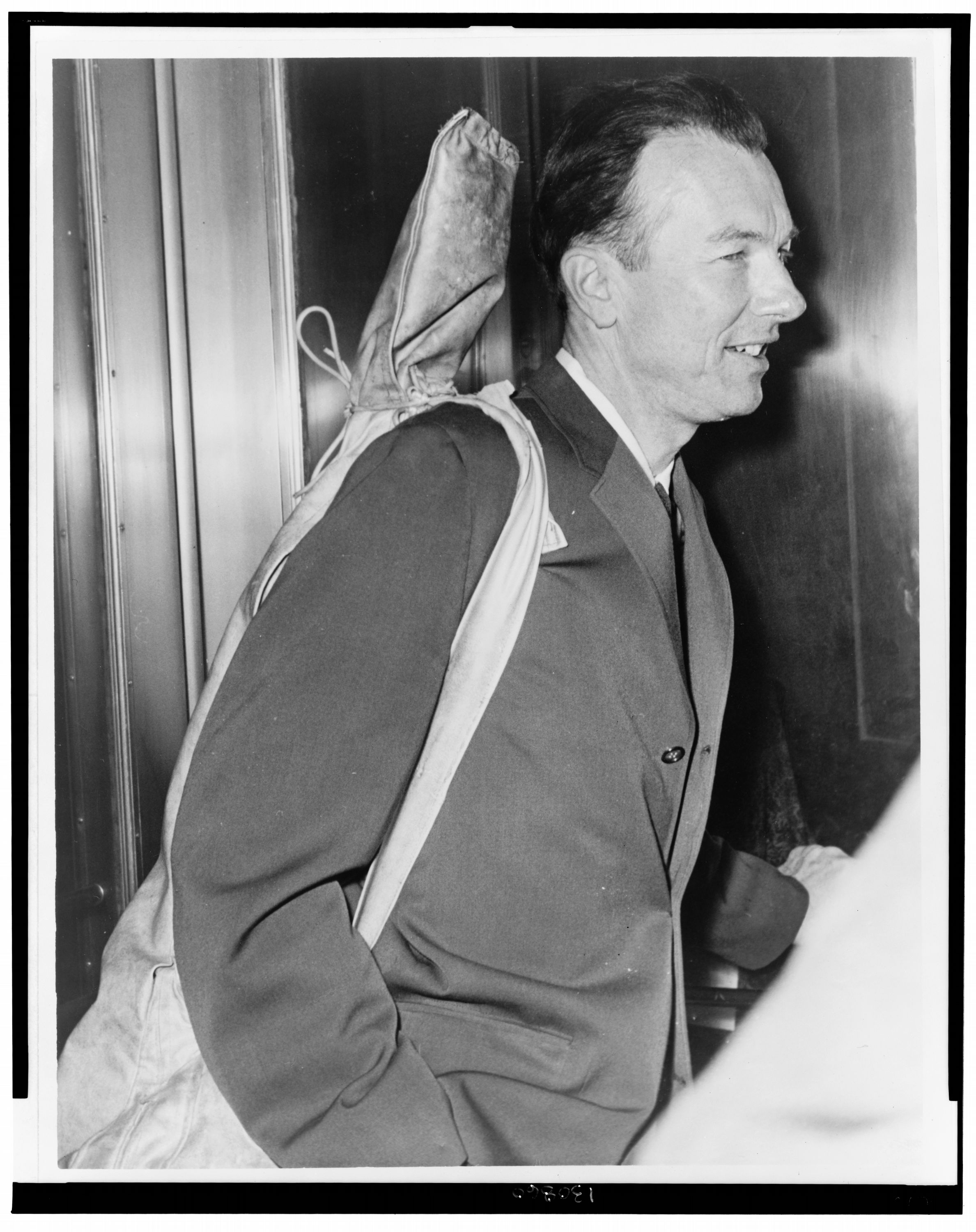 Pete Seeger arrives at Fed. Court with his guitar over his shoulder / World Telegram photo by Walter Albertin.